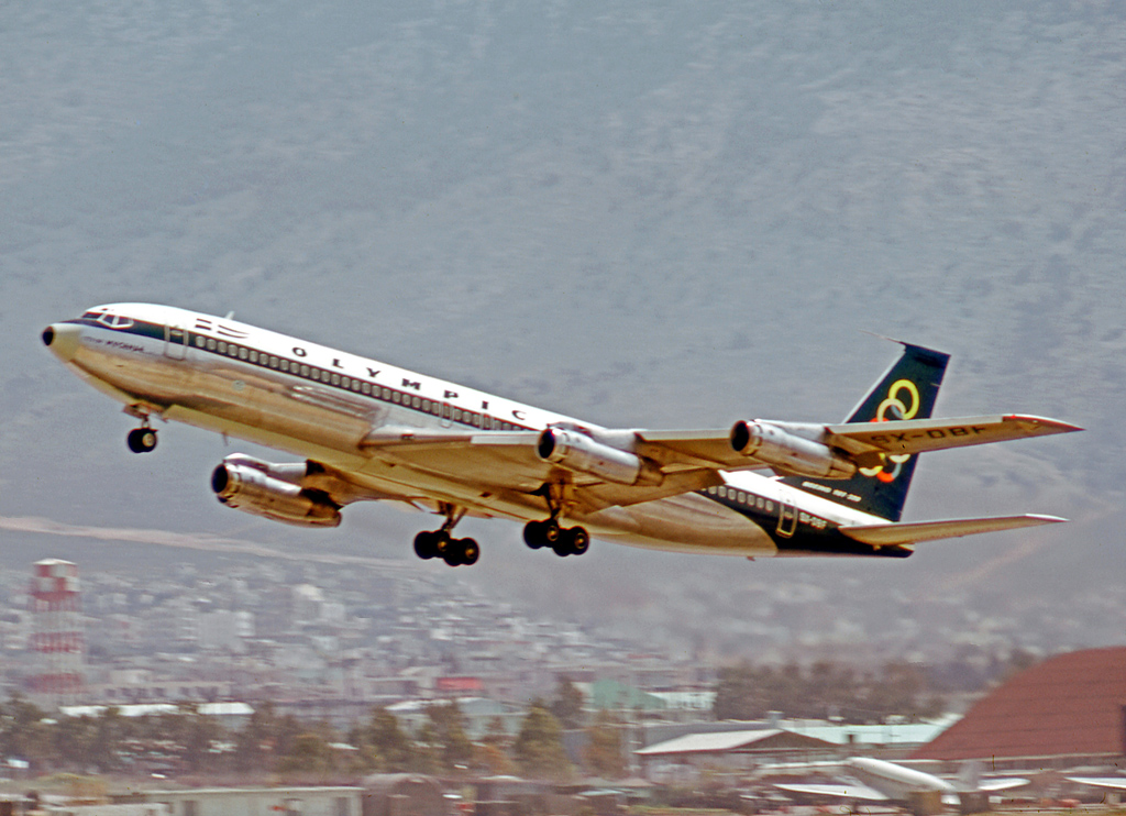 Boeing 707-384B SX-DBF of Olympic Airways taking off from Athens Hellenikon Airport in 1973